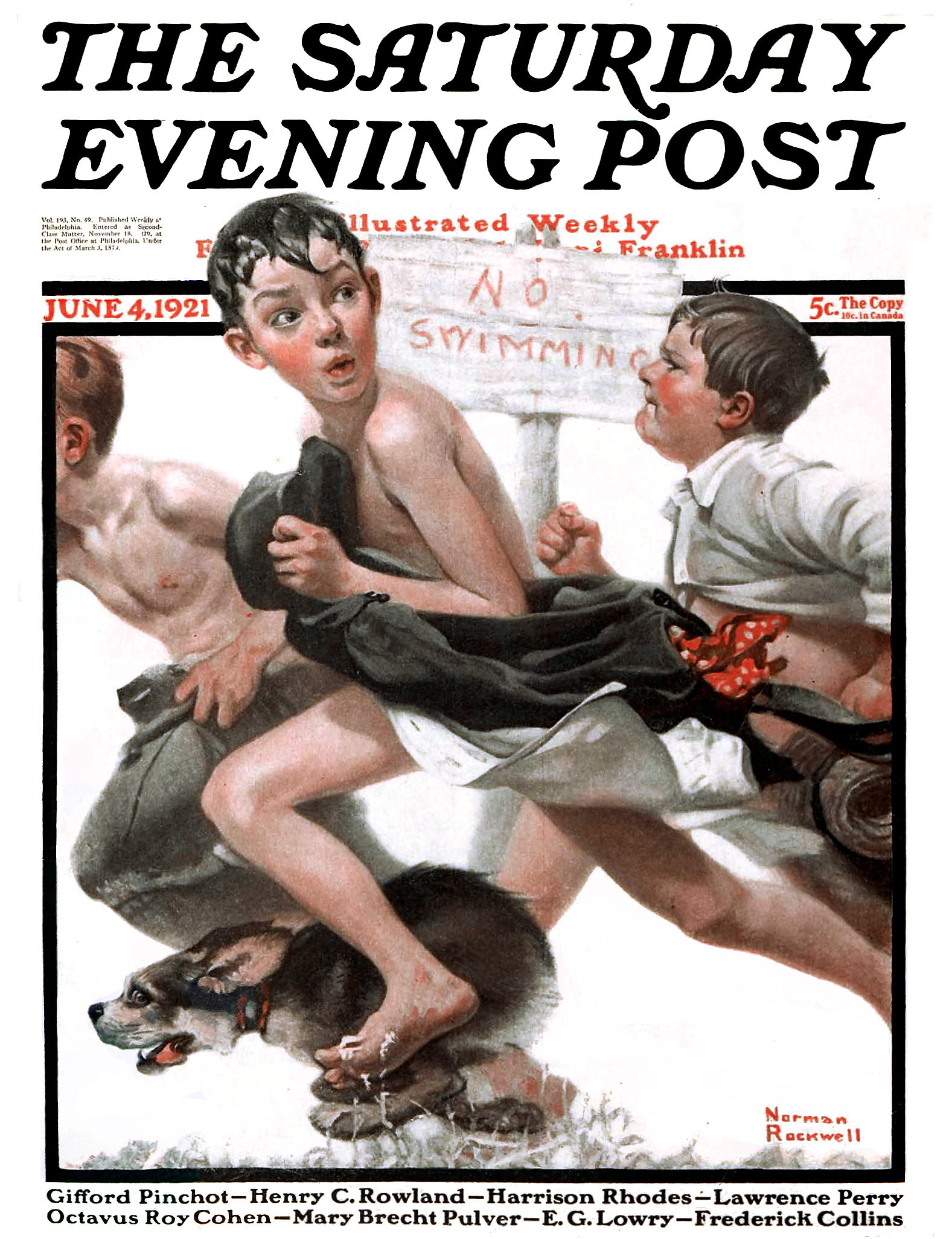 Norman Rockwell's No Swimming, the cover for The Saturday Evening Post, published 4-Jun-1921